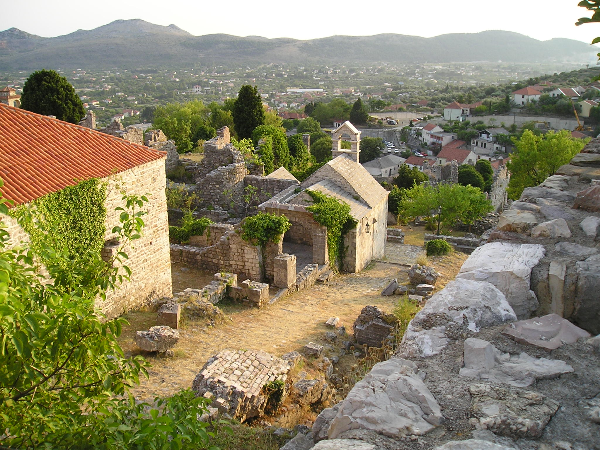 Old Town of Bar, Montenegro